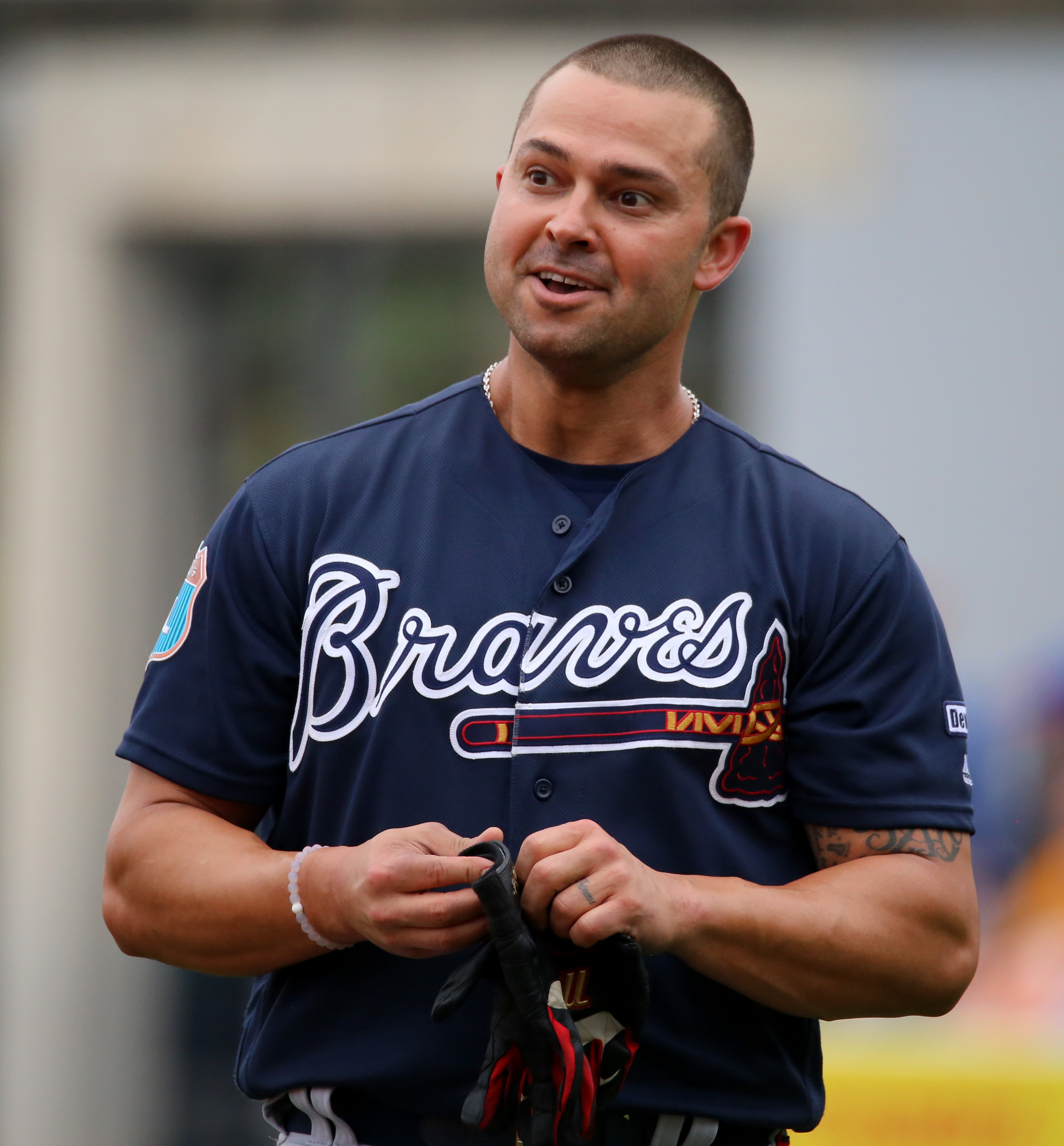 Nick Swisher